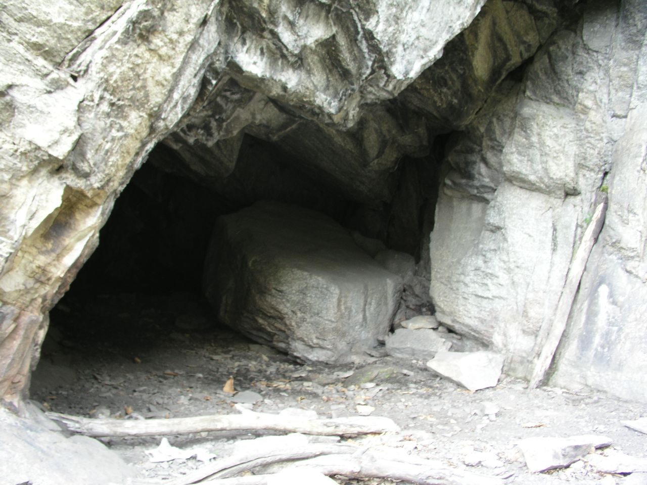 Entrance of the cave "Ciumiera" in Cantalupa (province of Turin) where have been found items of the "Iron Age"